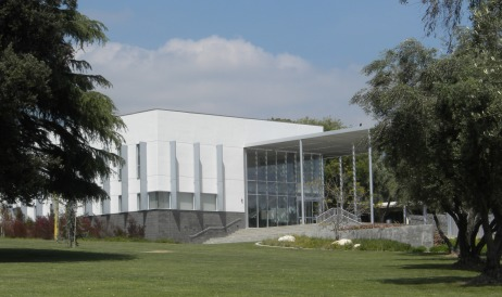 The Student Services Administration Building on the Rancho Cucamonga Campus